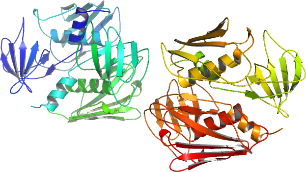 Toxic shock syndrome toxin 1 (TSST-1) PDB accession # 1AW7